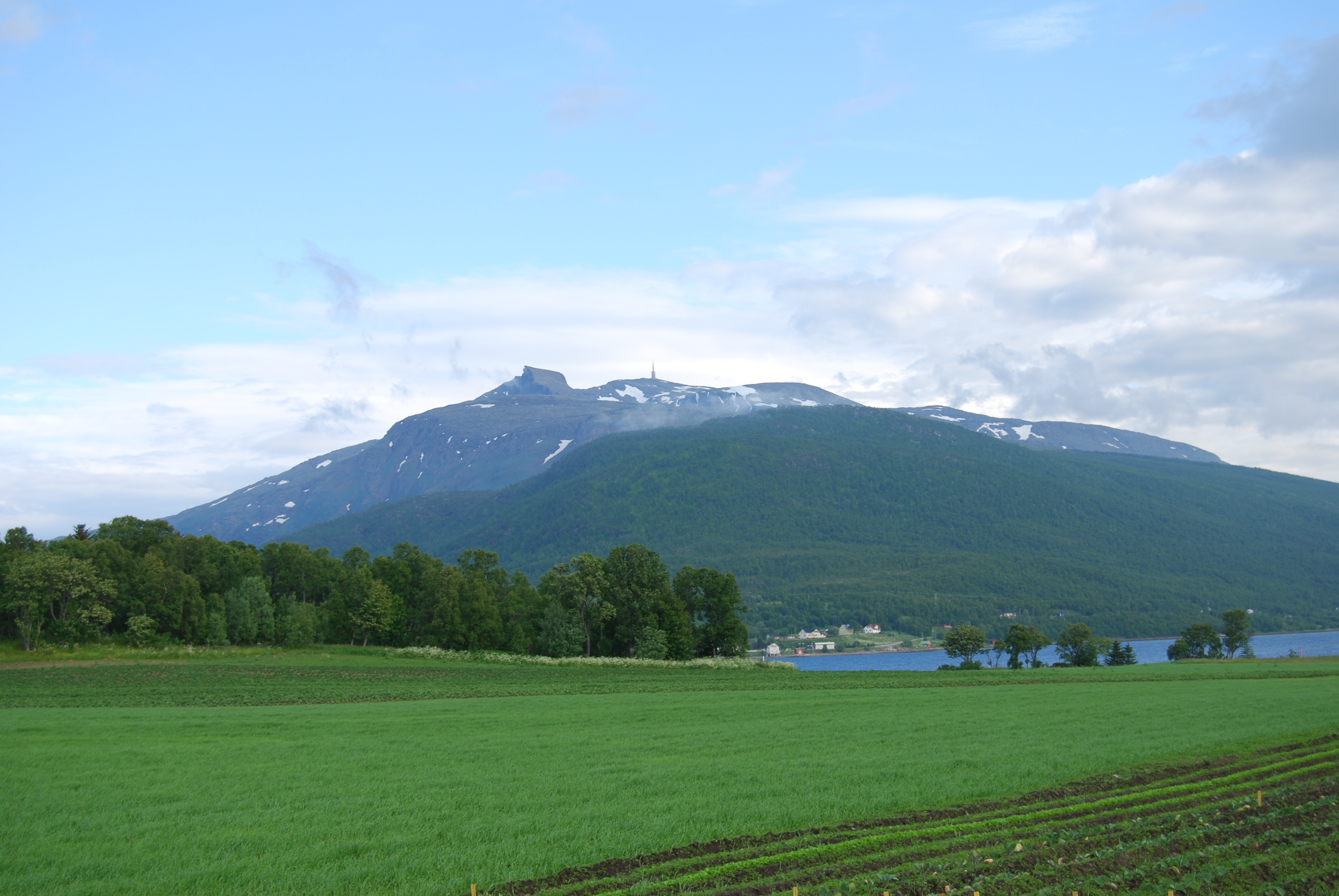 Kistefjellet i Lenvik from the sight of Gibostad village on Senja, Norway.